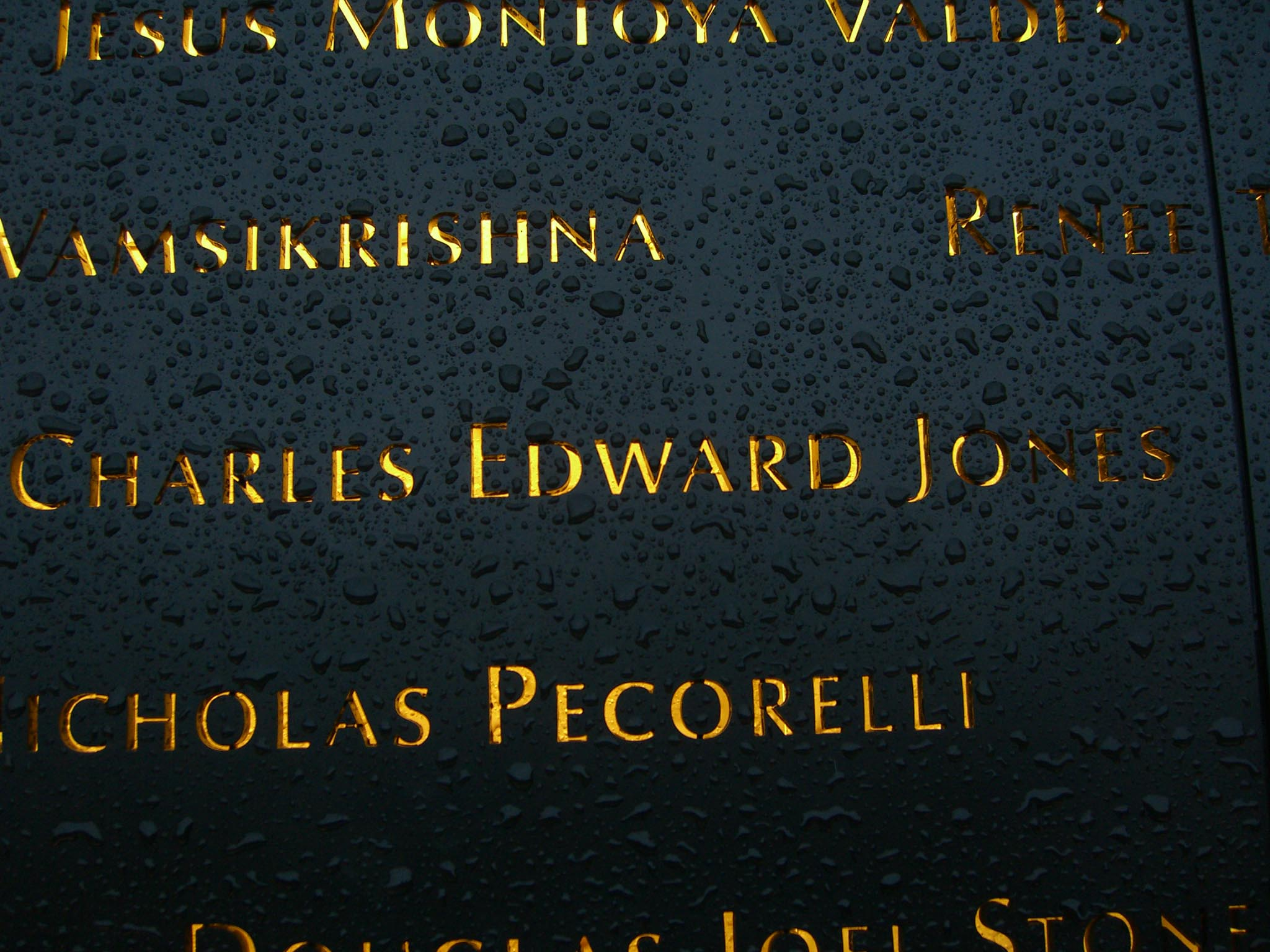 The name of Charles Edward Jones is seen with those of other 9/11 victims from American Airlines Flight 11, inscribed on bronze panel N-74 of the North Pool of the National September 11 Memorial in Manhattan, as seen on December 6, 2011. This photo was created by Luigi Novi. If you have any questions, you can contact me by sending me an email or User talk:Nightscream